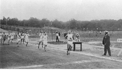 Finish of 400 m running event during 1904 Summer Olympics